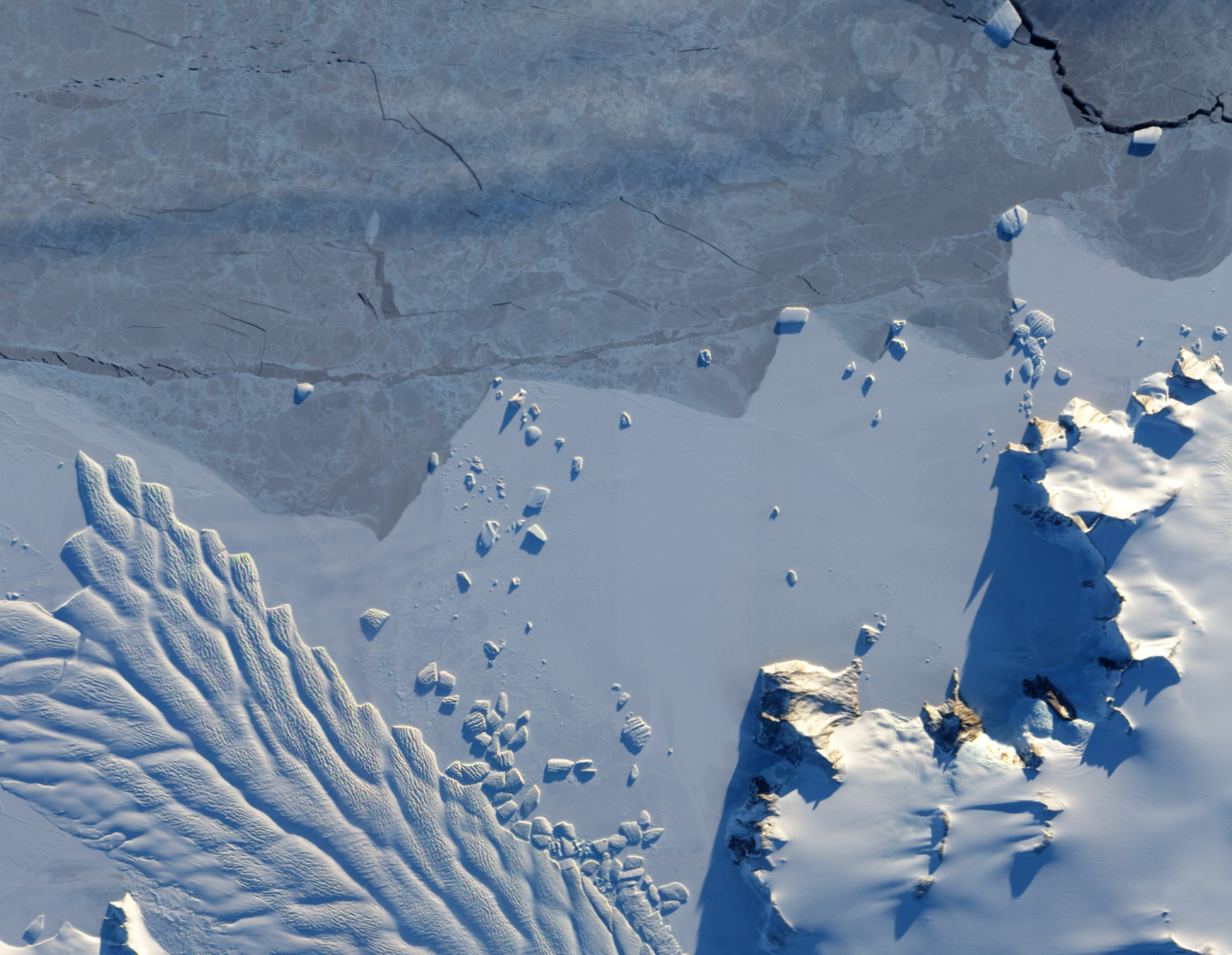 Natural-colour image of the margin of Matusevich Glacier. Shown here just past the rock-lined channel, the glacier is calving large icebergs. Low-angled sunlight illuminates north-facing surfaces and casts long shadows to the south. Fast ice anchored to the shore surrounds both the glacier tongue and the icebergs it has calved. Compared to the glacier and icebergs, the fast ice is thinner with a smoother surface. Out to sea (image left), the sea ice is even thinner and moves with winds and currents.